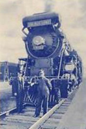 Locomotive of the New Haven Railroad's train "Blue Comet" which traveled between New York City and Atlantic City, New Jersey.